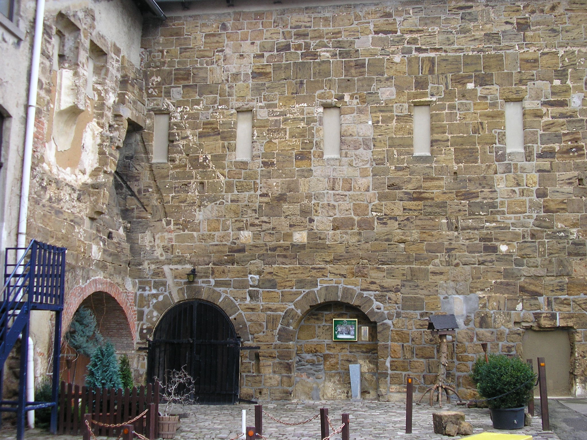 Former monastery St. Paul in Minden, district of Minden-Lübbecke, North Rhine-Westphalia, Germany: Ruin of former monastery St. Pauli.